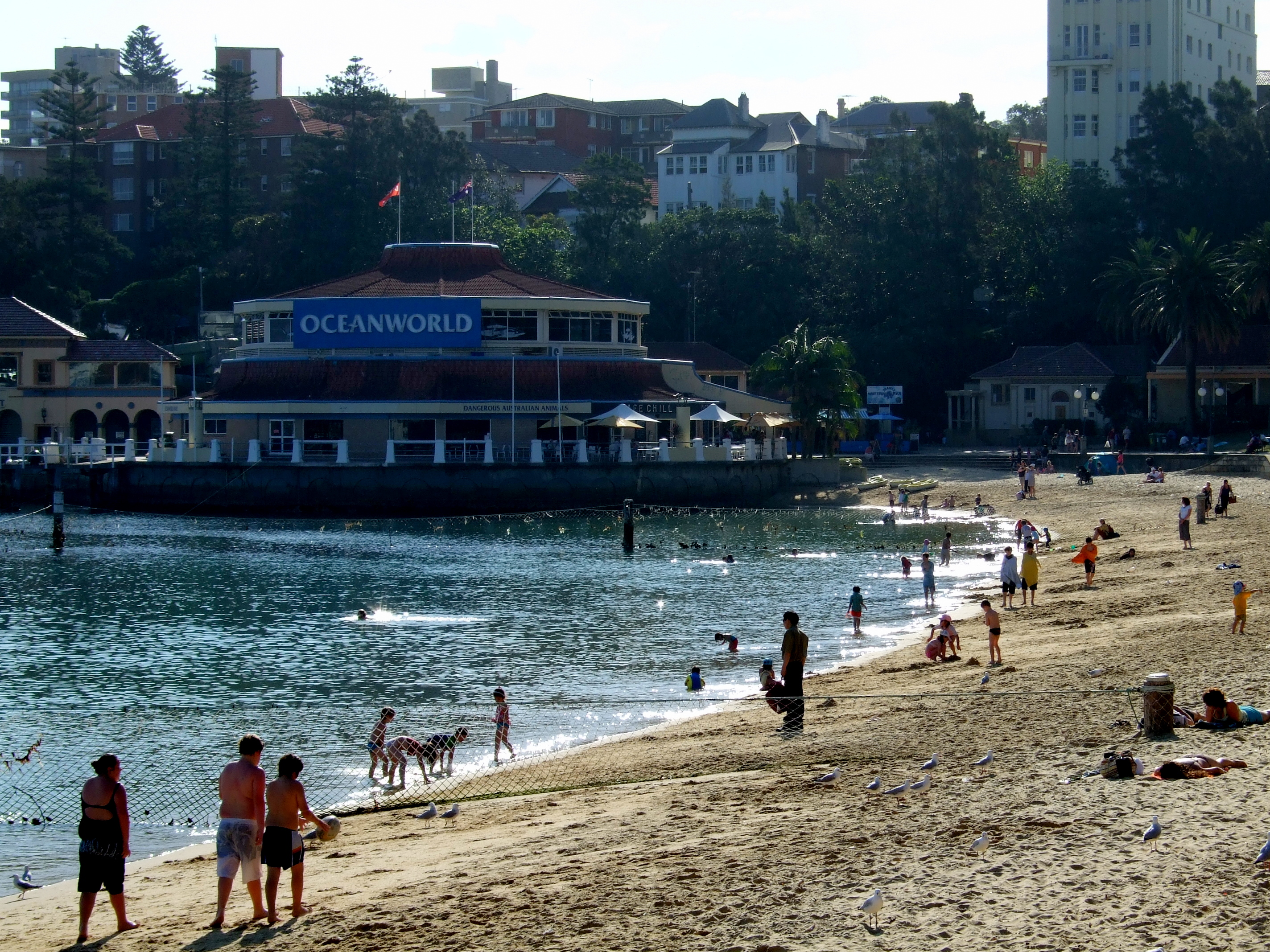 Oceanworld is in Manly, which was named after the bloke who found the place thought the aborigines had particularly good physiques. True story.